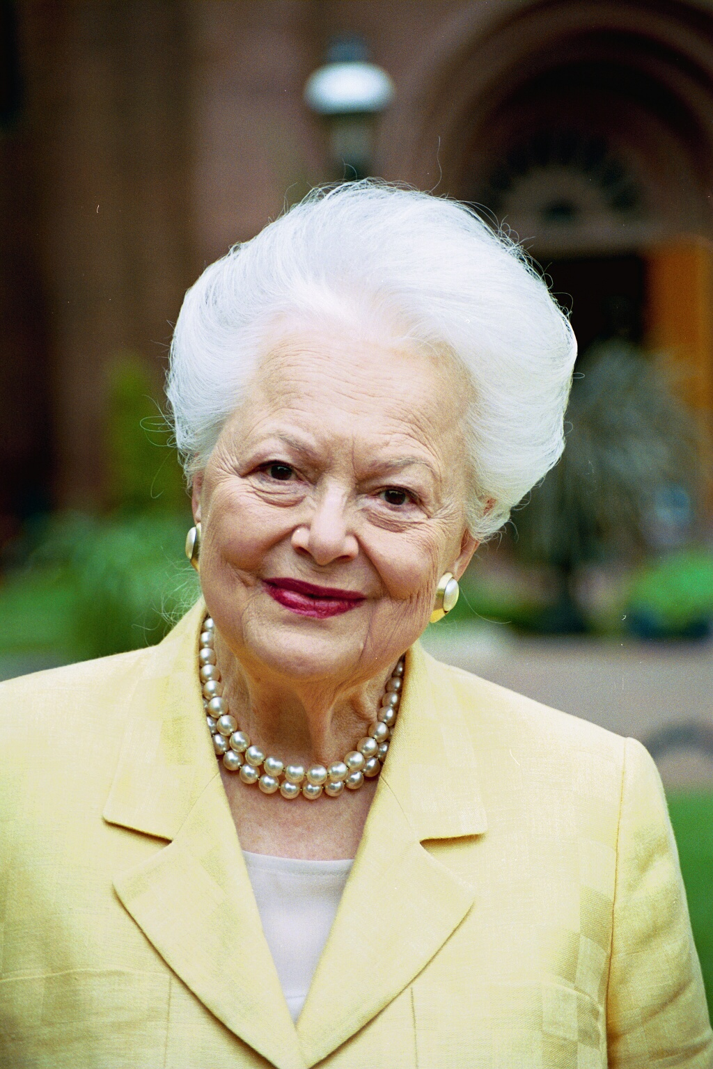 From Smithsonian castle April 2000 © copyright John Mathew Smith 2001